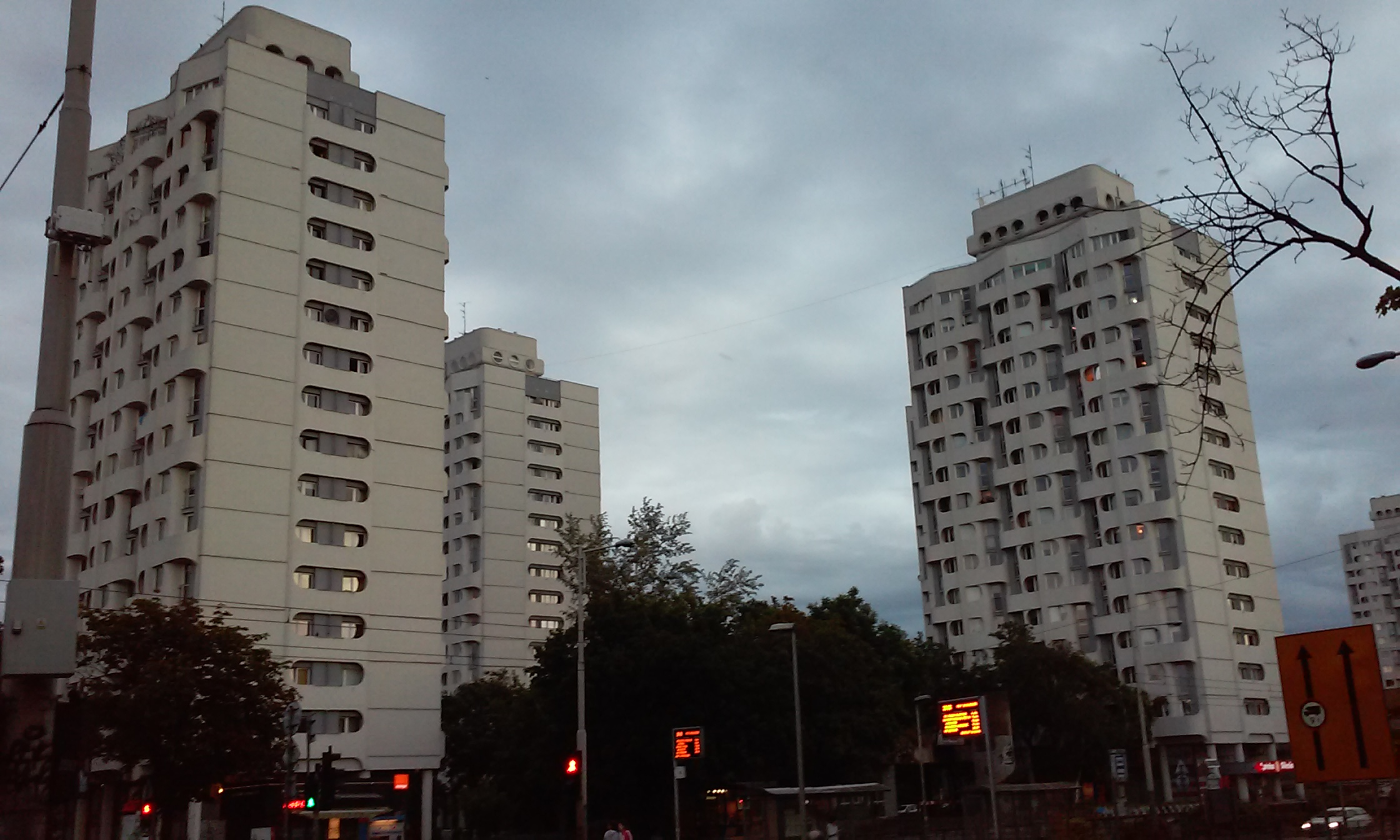 Residential and commercial building complex at pl. Grunwaldzki (Grunwald Square) in Wrocław, Poland